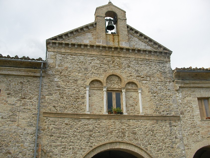 The façade of the church of Saint Maria degli Angeli near the convent of St. Pasquale to Atessa